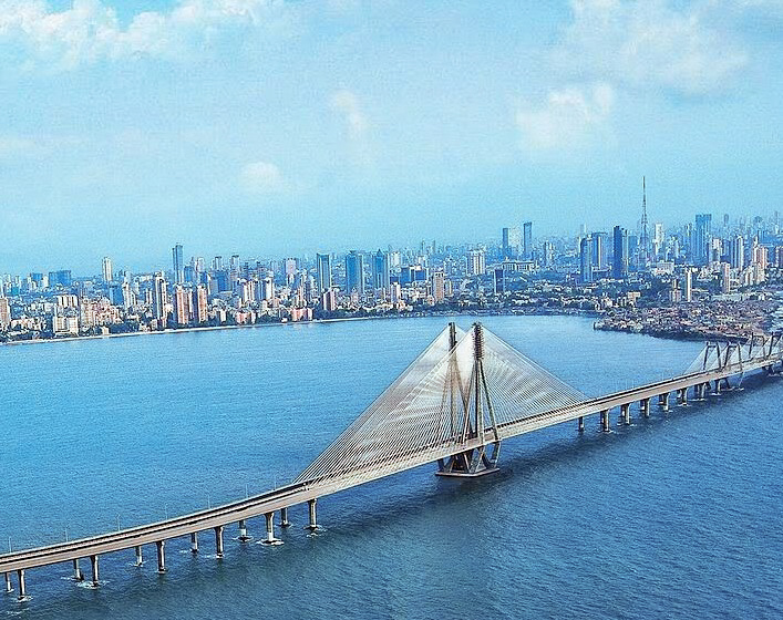 The Bandra-Worli sealink